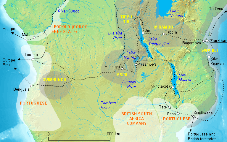 South-Central Africa showing Msiri’s Kingdom of Garanganza, (Katanga, Congo) in 1880, related to territories of Mirambo, Tippu Tib, the coastal Swahili, and the territories of the British, Portuguese and Congo Free State, with principal trade routes. Based on Wiki Commons files: Image:Topographic30deg S0E0.png and Image:Topographic30deg S0E30.png